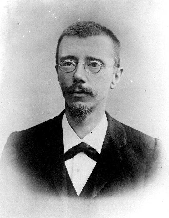 Repro Negative. Brandes was a linguist, an archaeologist and chairman of the Committee of Archaeological Research in Java and Madura .. Studio portrait of Dr. J.L.A. Brandes